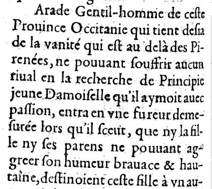 First mention of Occitania in French, in Jean-Pierre Camus, Les récits historiques ou histoires divertissantes, entremeslées de plusieurs agreables rencontres & belles reparties